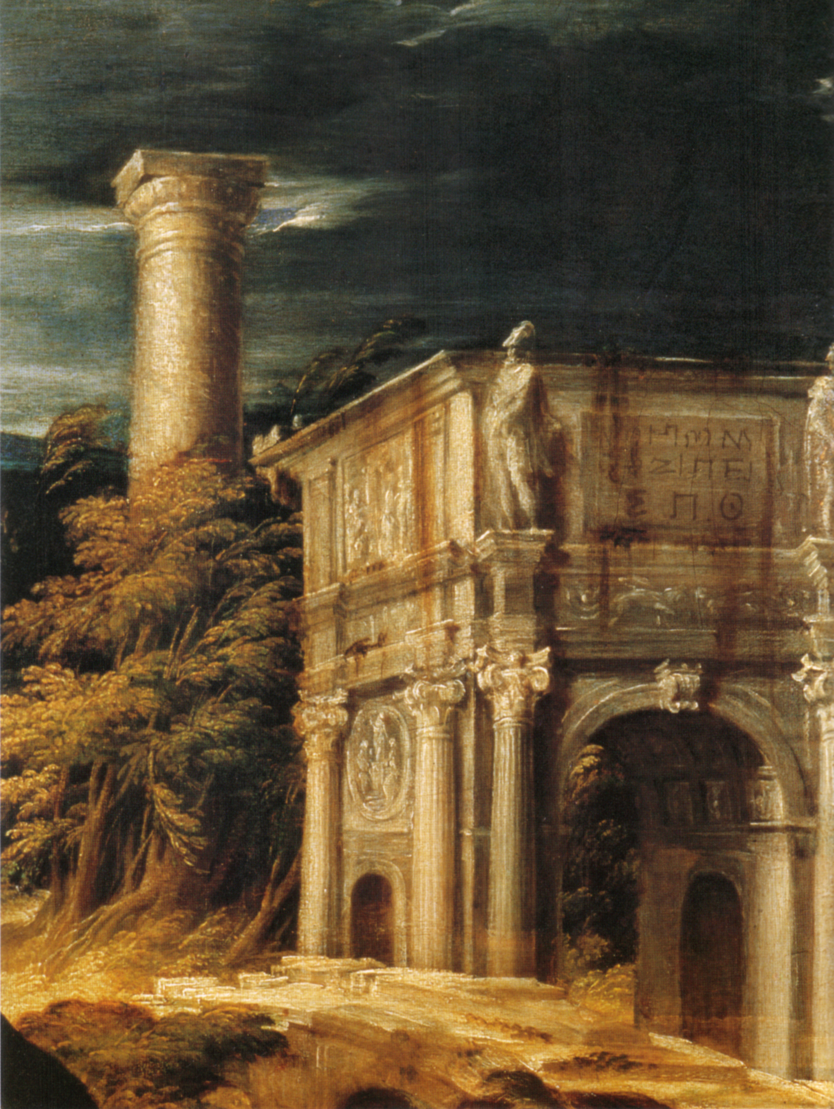 Detail